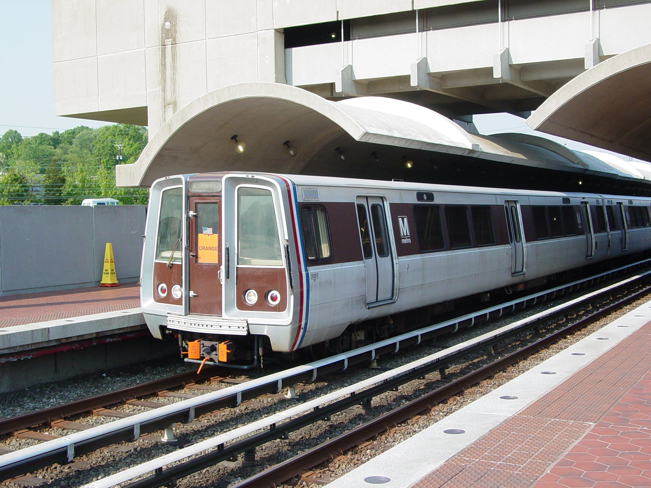 1007 at Cheverly Metro station